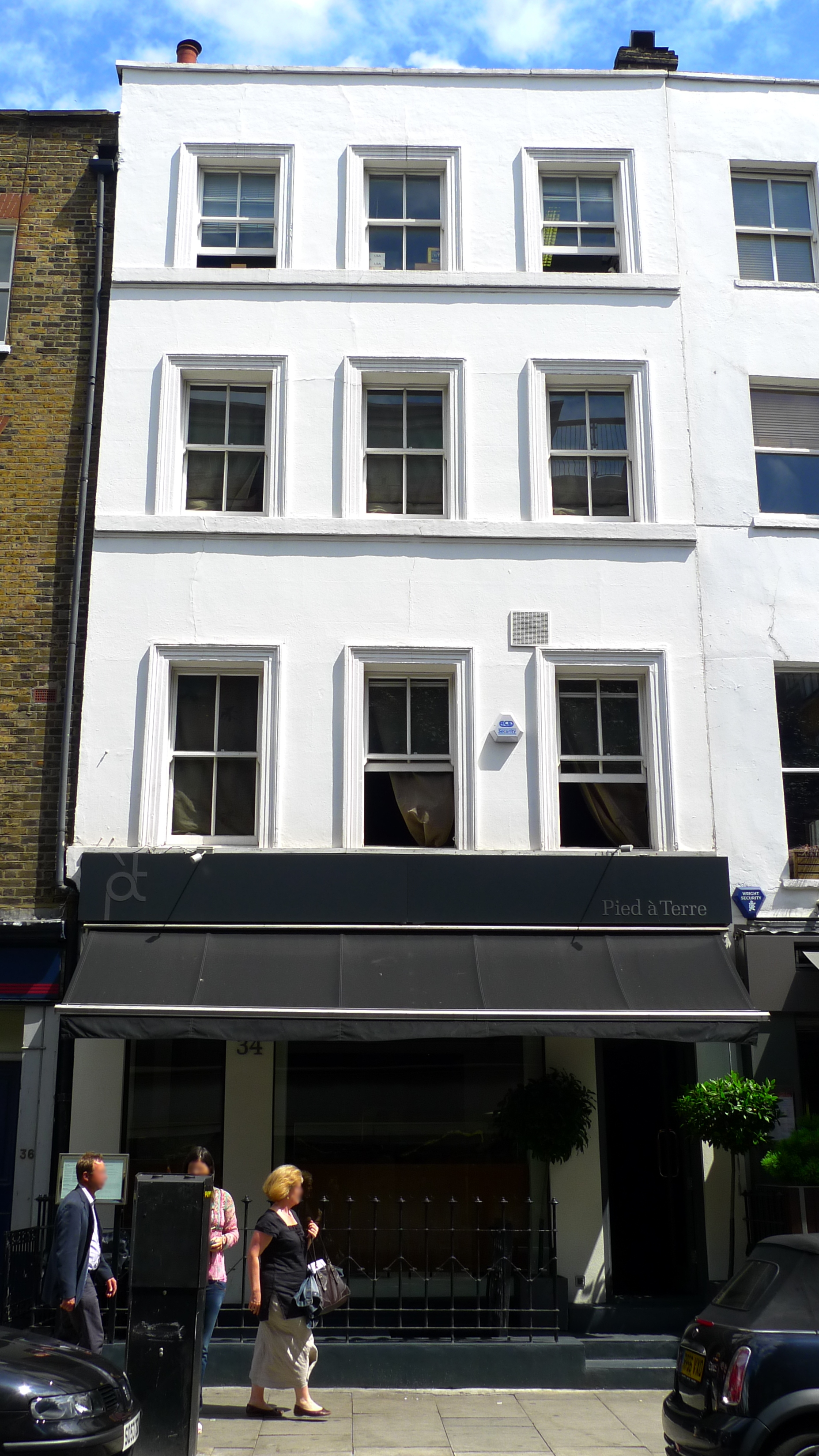 A fine dining restaurant (two Michelin stars), really strong food, friendly service. Worth visiting.